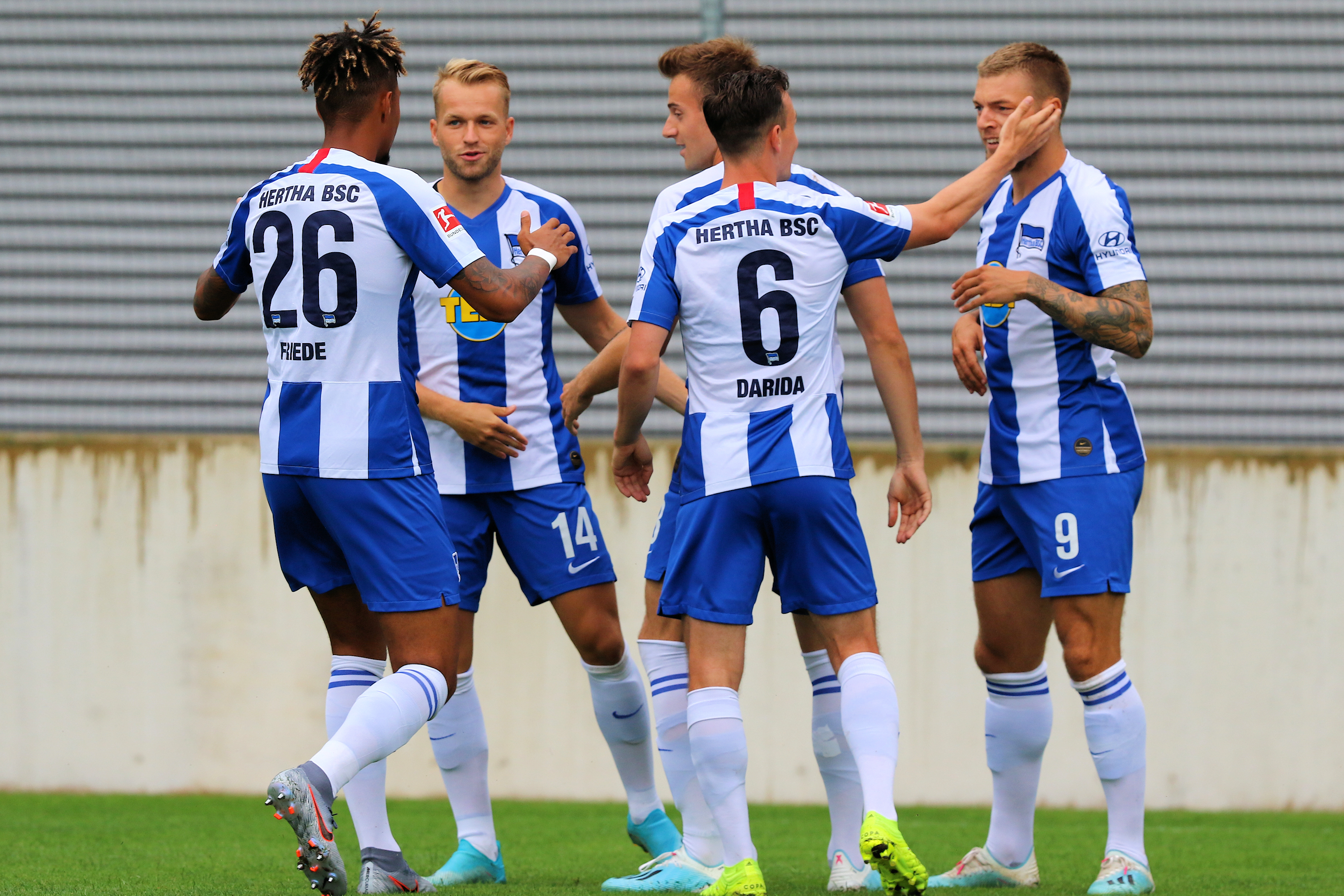 Friendly match Hertha BSC (blue-white shirts) vs. West Ham United (red-blue shirts) at 31-07-2019 3-5 (3-2) in the Sonnenseestadium in Ritzing. – The photo shows from left to right Sidney Friede, Pascal Köpke, Lukas Klünter, Vladimír Darida and Alexander Esswein (all Hertha BSC).